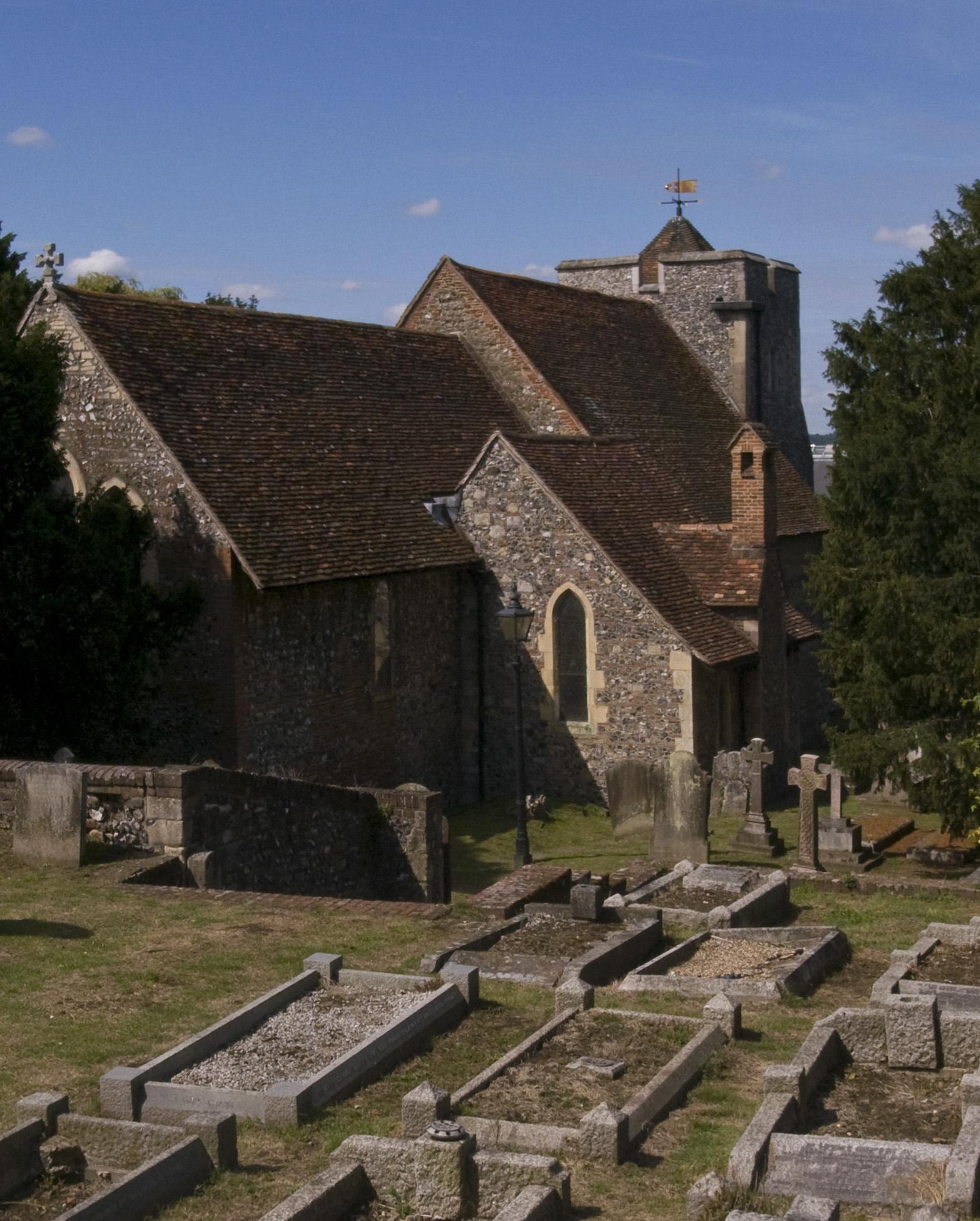 St Martin's Church, Canterbury, England.